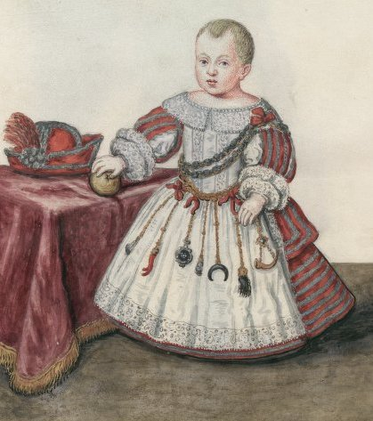 Portrait of the young Carlos II